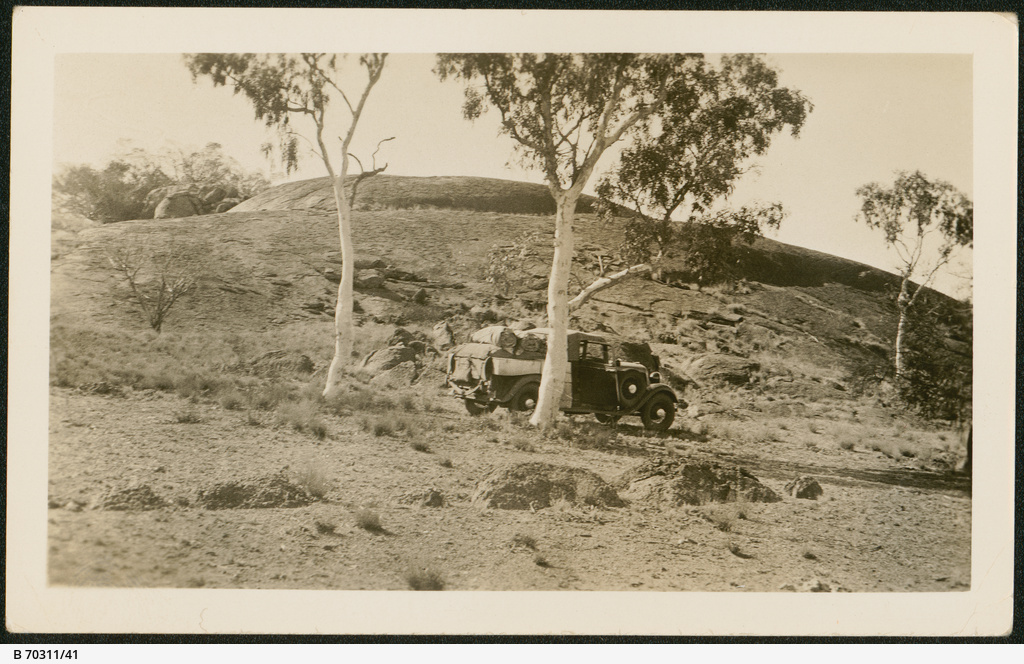 Photograph of a vehicle near Coniston Station, taken approximately 1935 by Walter Henry Mengersen.